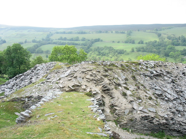 An overpass leading to a waste tip at deeside Quarry